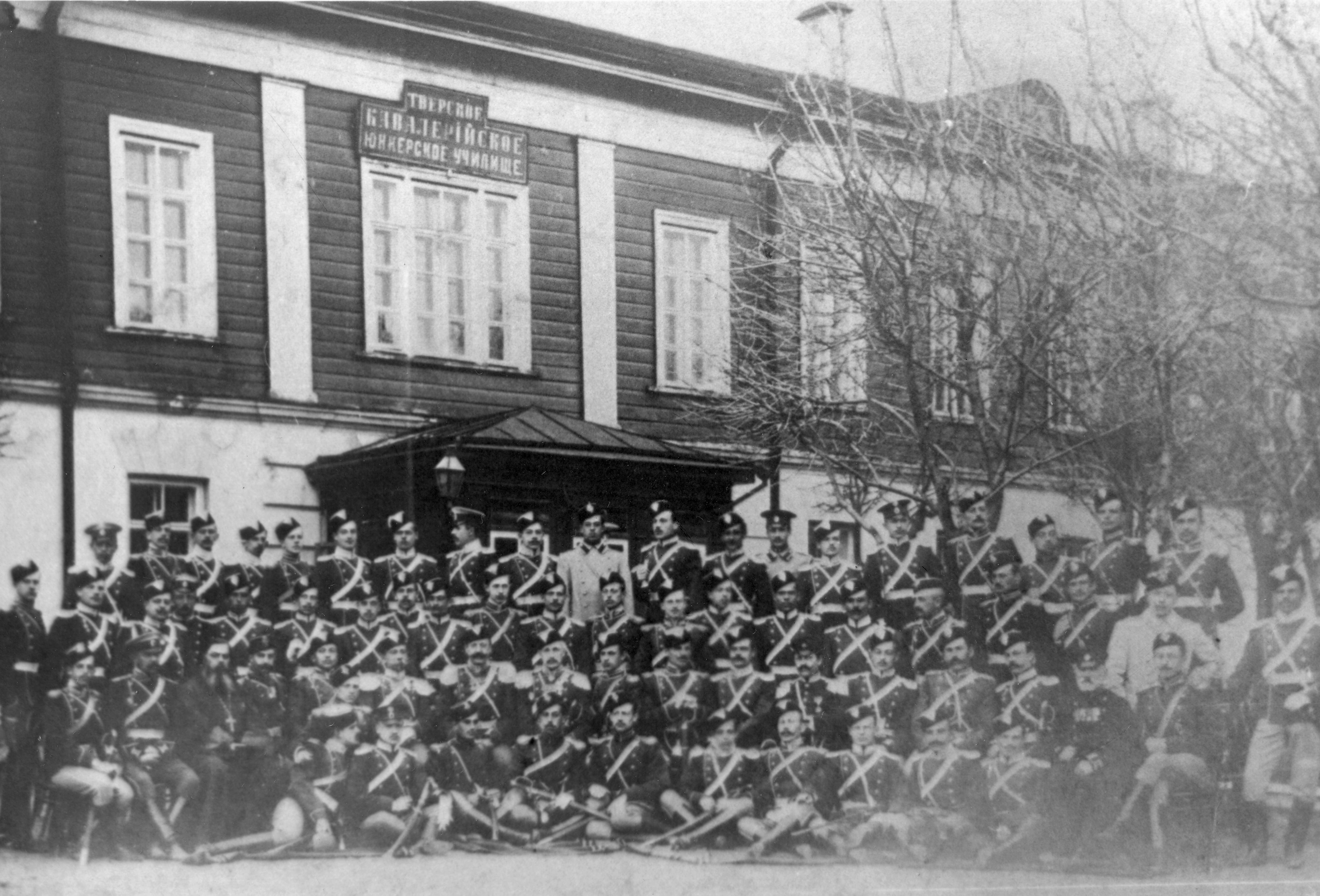 The Tver cavalry school